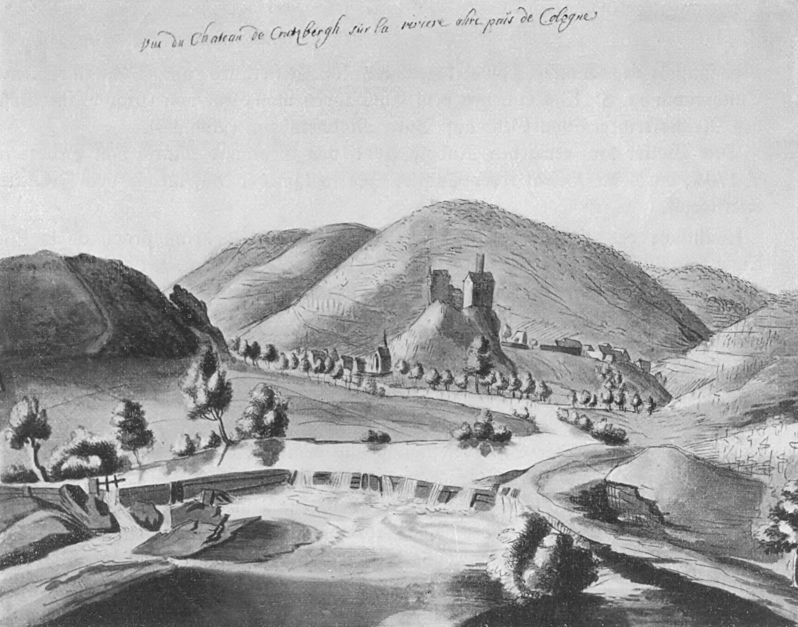 Kreuzberg Castle, ink drawing, western aspect